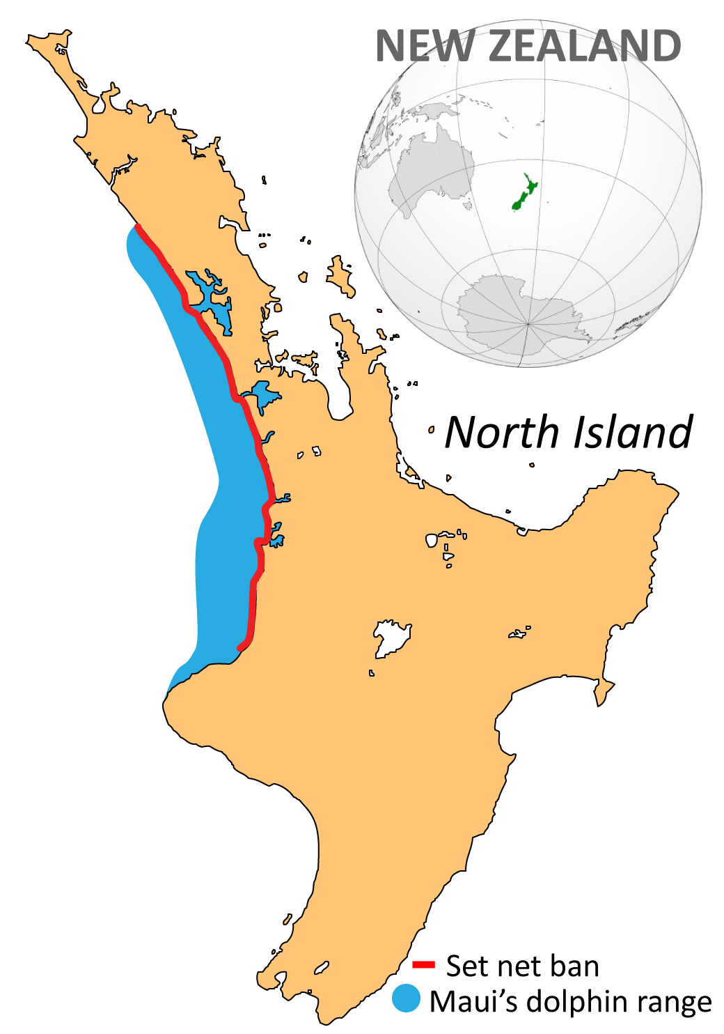 Map of the North Island of New Zealand showing the range of the Maui's dolphin, (Cephalorhynchus hectori maui). Also shows the set/gill net ban area, includes mini-map of New Zealand.